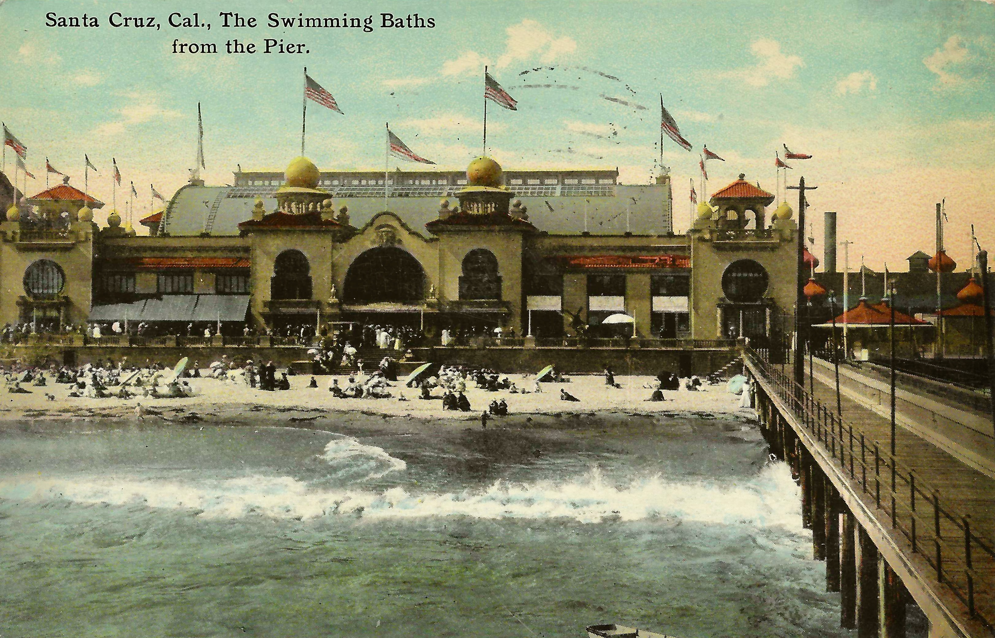 Postcard of Santa Cruz, California, The Swimming Baths from the Pacific Novelty Company Postcards, circa 1910.